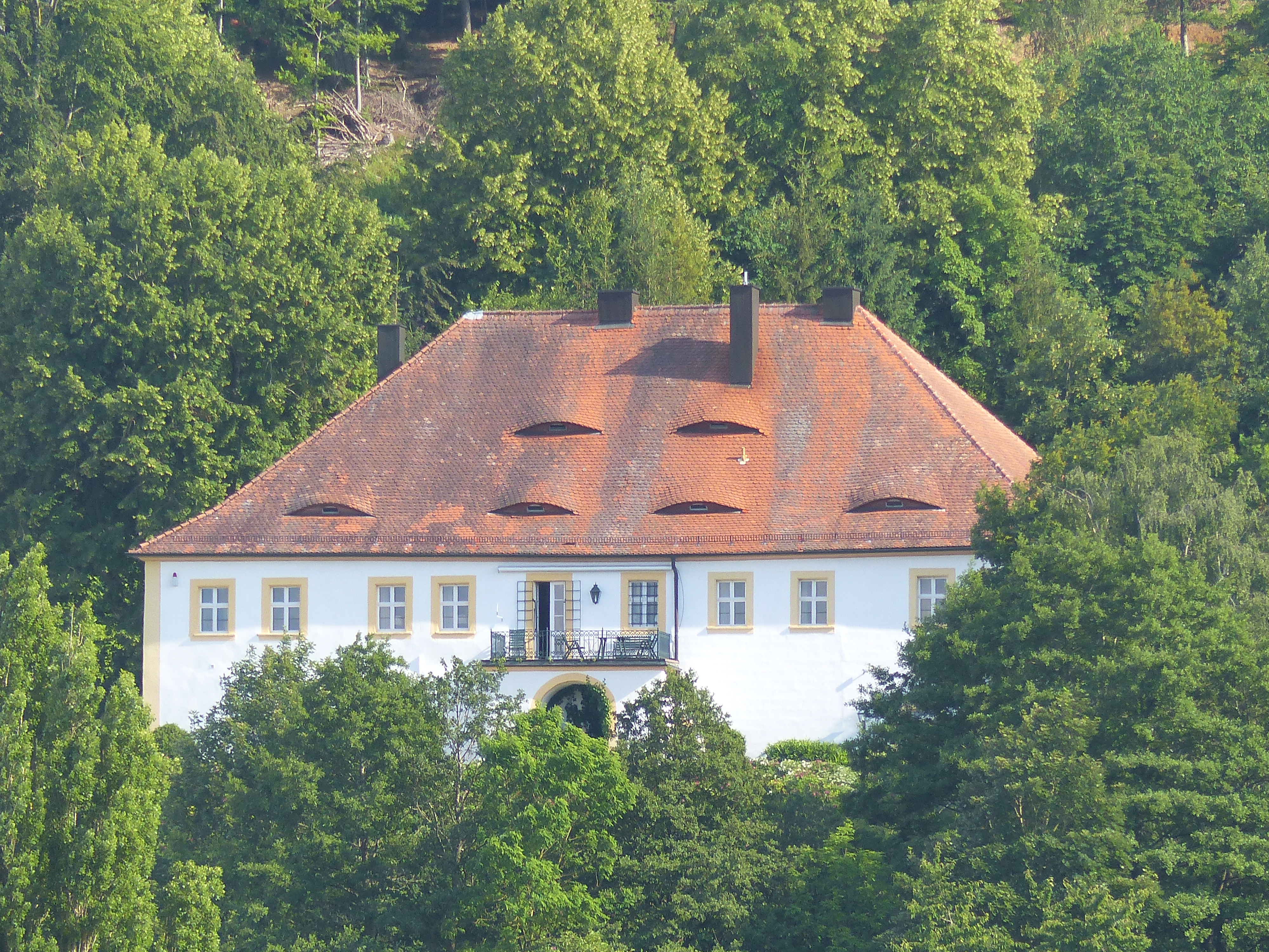 Main building of château Adlitz in Adlitz, a village in the municipality of Ahorntal.